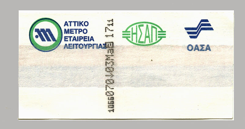 Athens metro ticket